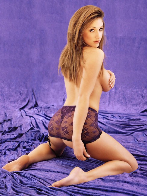 English model Lucy Pinder.